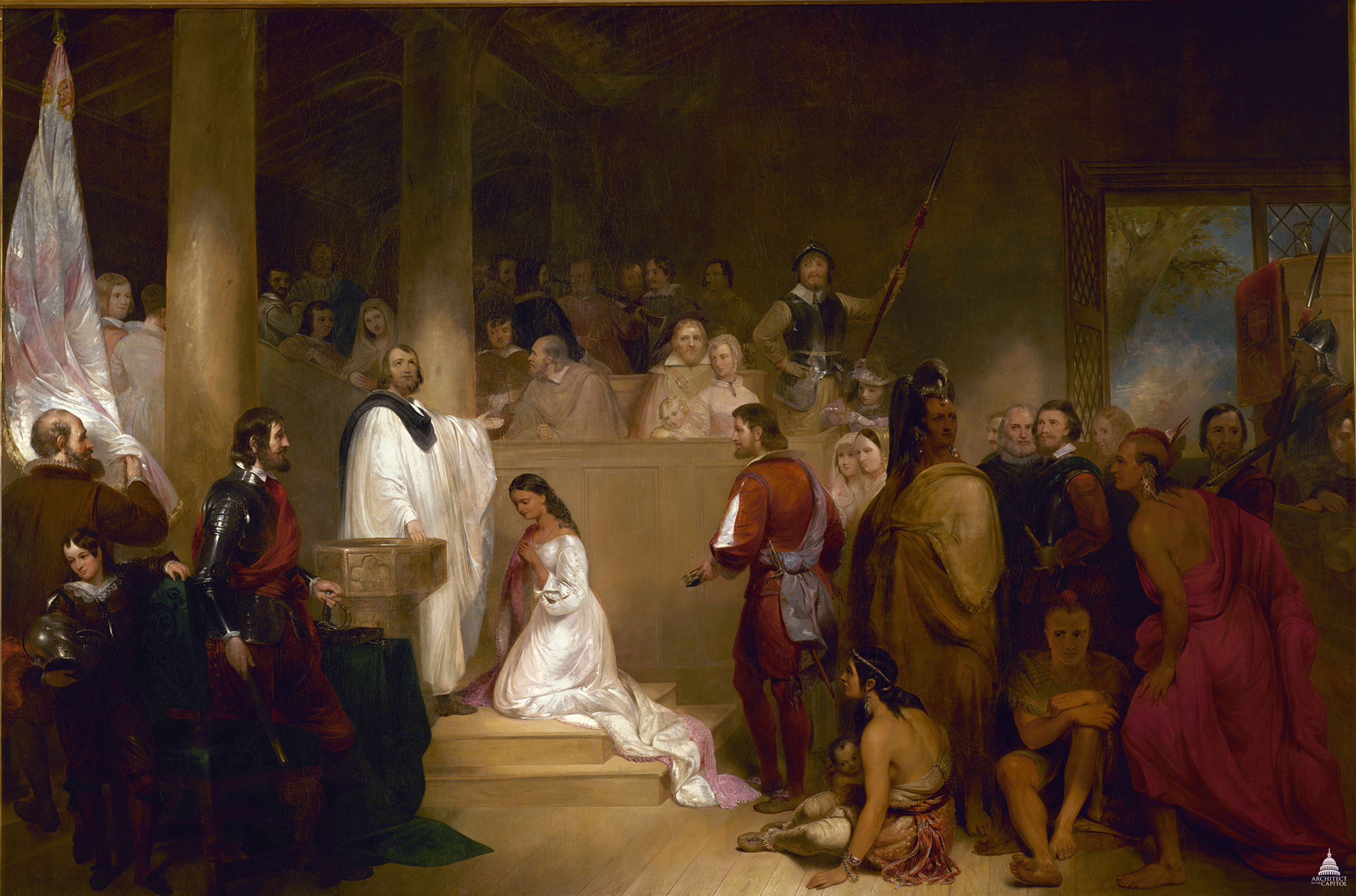 John Gadsby Chapman Oil on canvas, 12' x 18' 1839; placed 1840 Rotunda U.S. Capitol This painting depicts the ceremony in which Pocahontas, daughter of the influential Algonkian chief Powhatan, was baptized and given the name Rebecca in an Anglican church. This official Architect of the Capitol photograph is being made available for educational, scholarly, news or personal purposes (not advertising or any other commercial use). When any of these images is used the photographic credit line should read “Architect of the Capitol.” These images may not be used in any way that would imply endorsement by the Architect of the Capitol or the United States Congress of a product, service or point of view. For more information visit